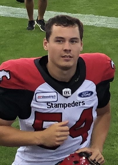 Pierre-Luc Caron, long snapper for the Calgary Stampeders.